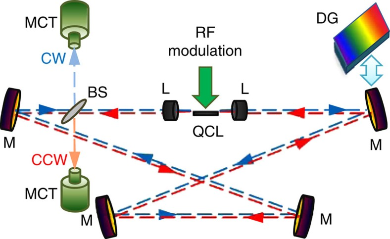 Optical set-up of free-space external ring cavity quantum cascade laser. BS, beam splitter; CCW, counter clockwise direction; CW, clockwise direction; DG, diffraction grating; L, aspheric lenses; M, mirrors; MCT, detector; QCL, quantum cascade laser.